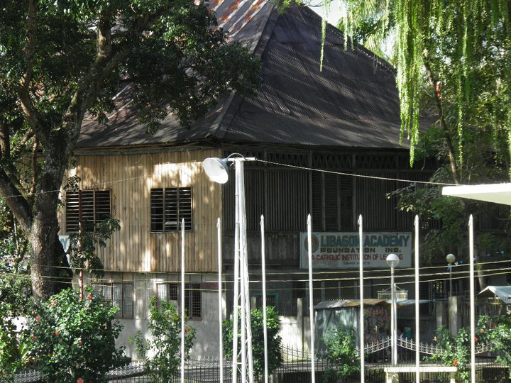 Libagon Academy Foundation Inc.